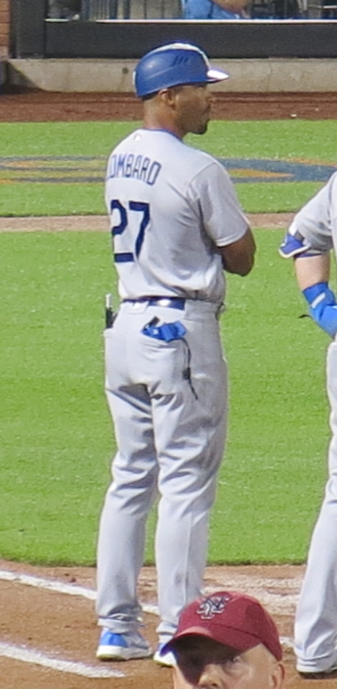 George Lombard with the Los Angeles Dodgers, May 29, 2016.